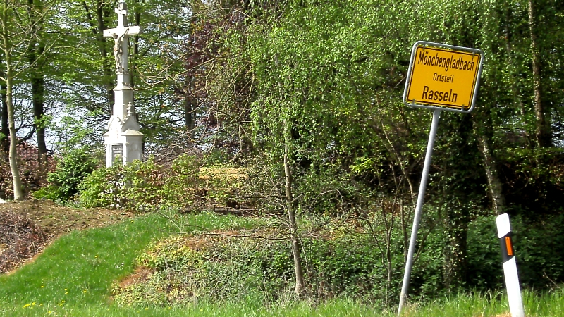 Wayside cross close to Rasseln nordeastern city limit, Mönchengladbach, Germany.